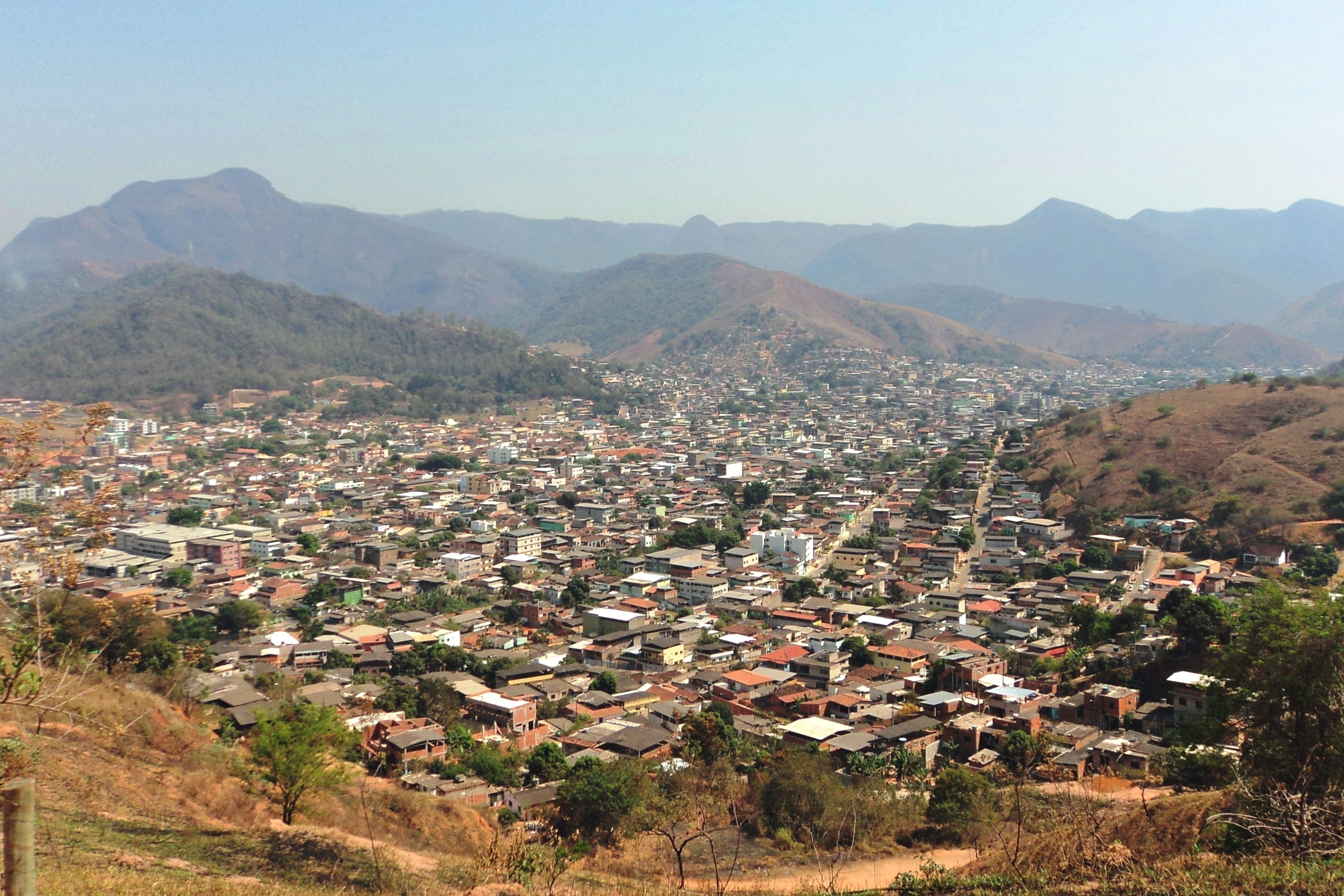 Partial view of Coronel Fabriciano, Minas Gerais, Brazil, with hills around, seen from of the Nova Tijuca neighborhood.